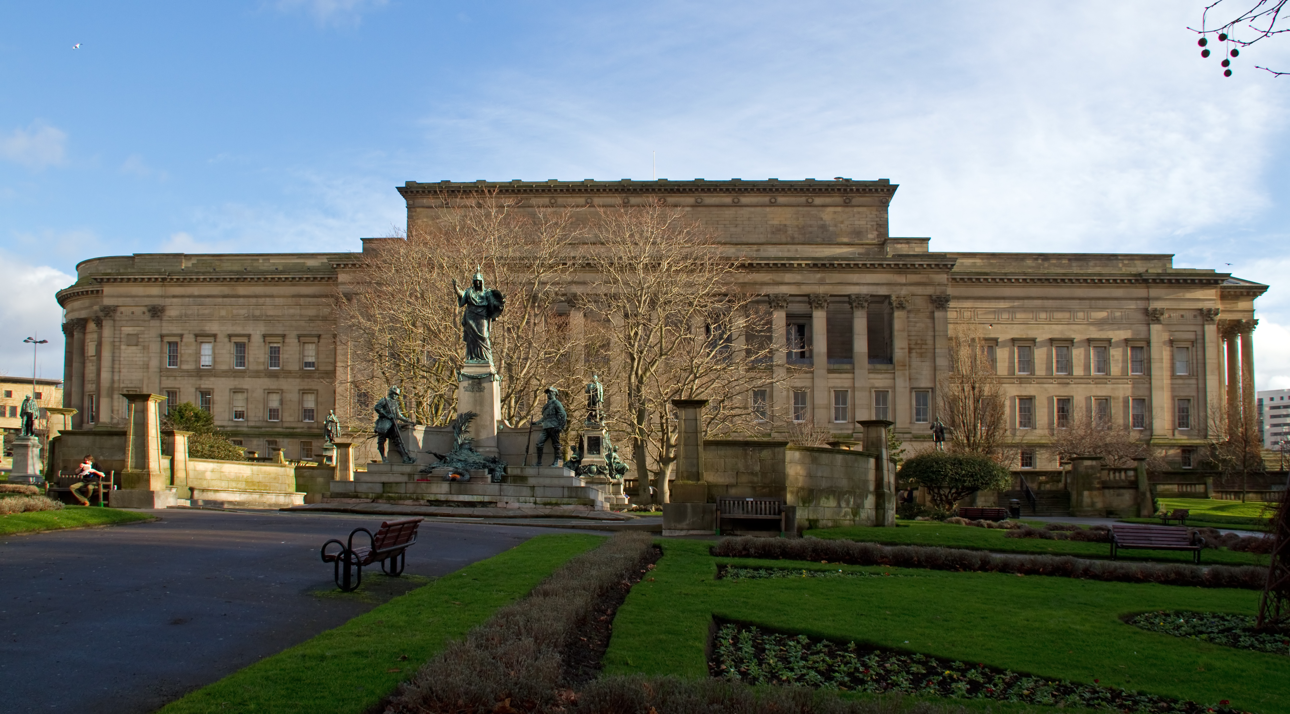 St George's Hall Liverpool 4